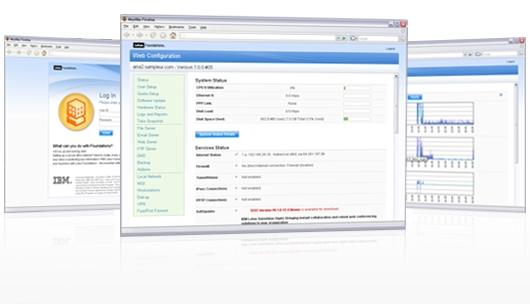 Screenshots of IBM's Lotus Foundations